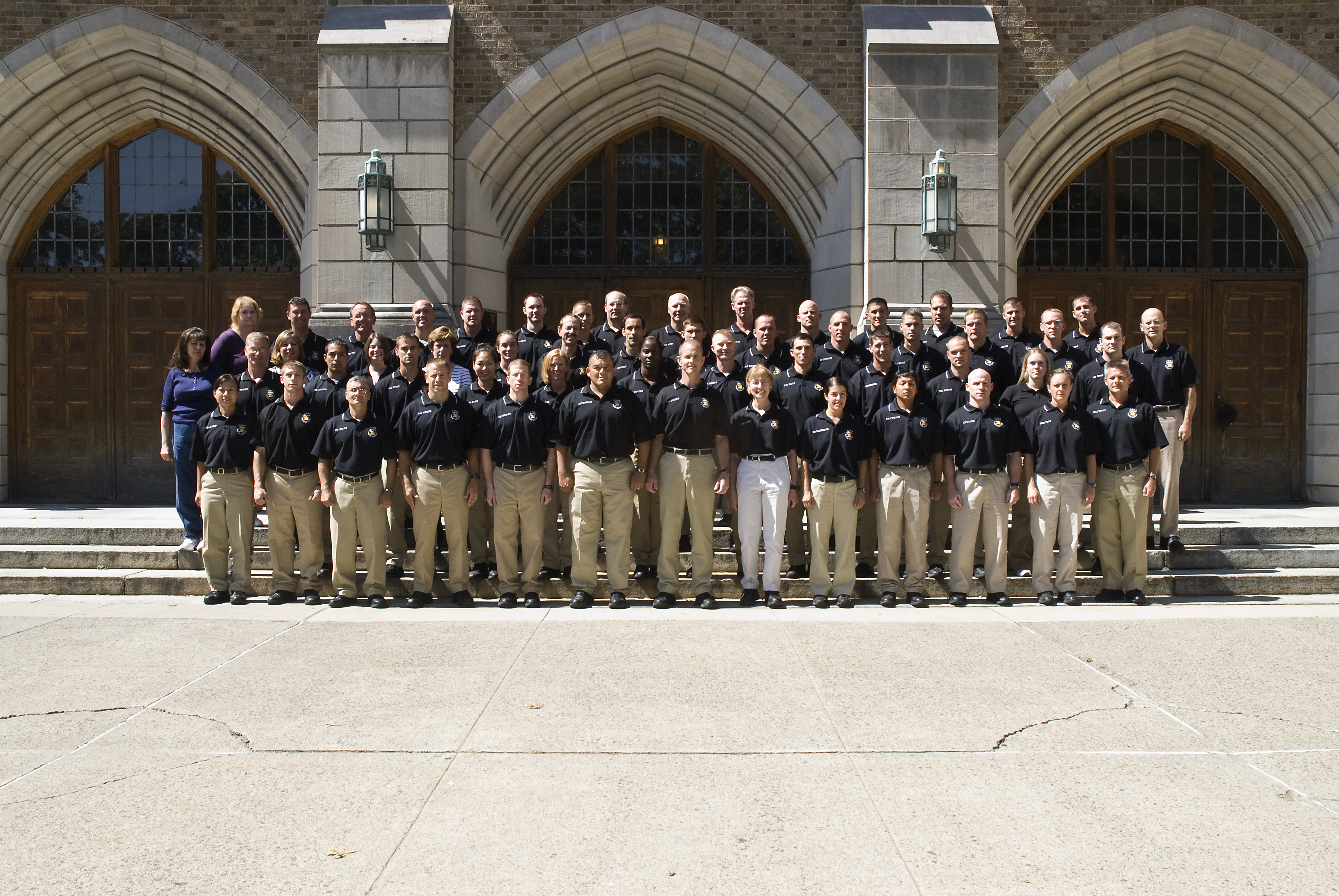 The Departmental Photo for AY 08-09